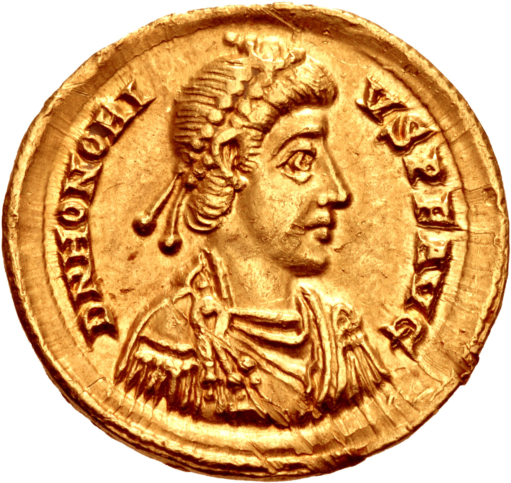 Honorius. AD 393-423. AV Solidus (21mm, 4.44 g, 12h). Mediolanum (Milan) mint. Struck AD 397-402. Pearl-diademed, draped, and cuirassed bust right / Honorius standing right, holding vexillum and Victory on globe, and with foot on bound captive to right; M-D//COMOB. RIC X 1206d; Depeyrot 16/2. Some residual luster, a few scratches and marks. EF.